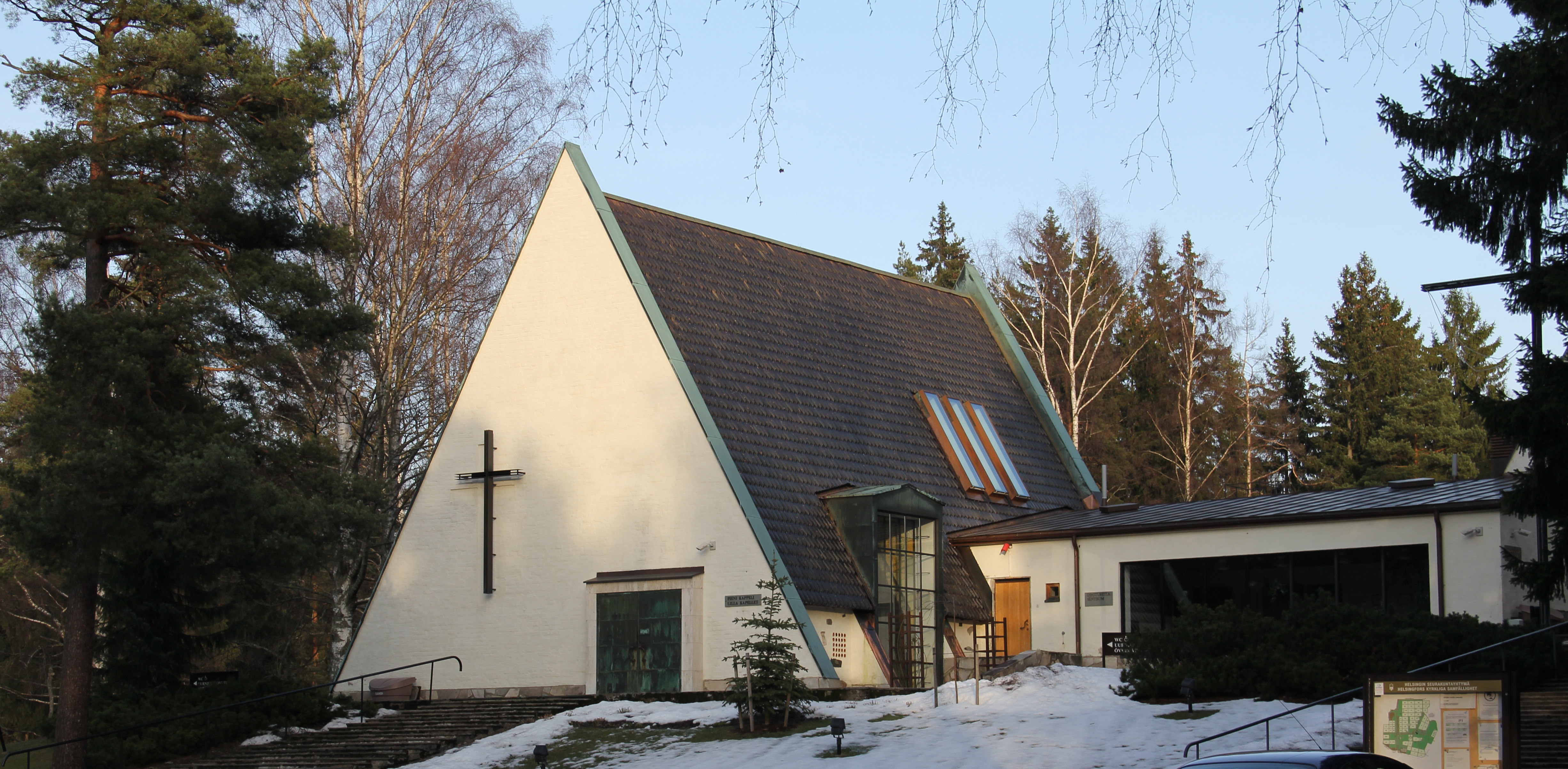 Honkanummi Cemetery Chapels in Honkanummi Cemetery, Vantaa, Finland. Designed by architect Erik Bryggman, completed in 1955. Smaller chapel, seen from southwest.